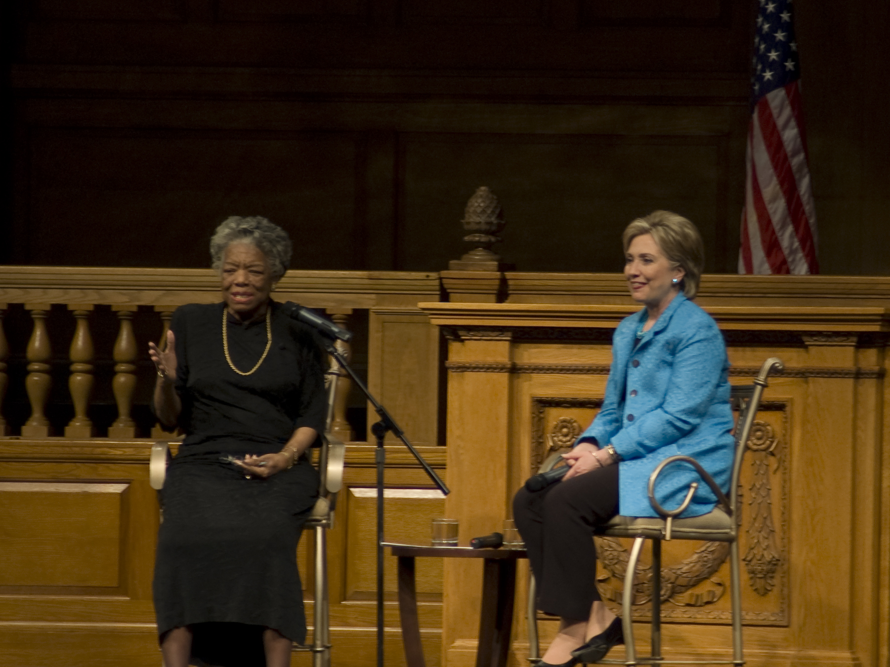 Hillary Clinton and Maya Angelou speaking at Wake Forest University in Winston Salem, NC.